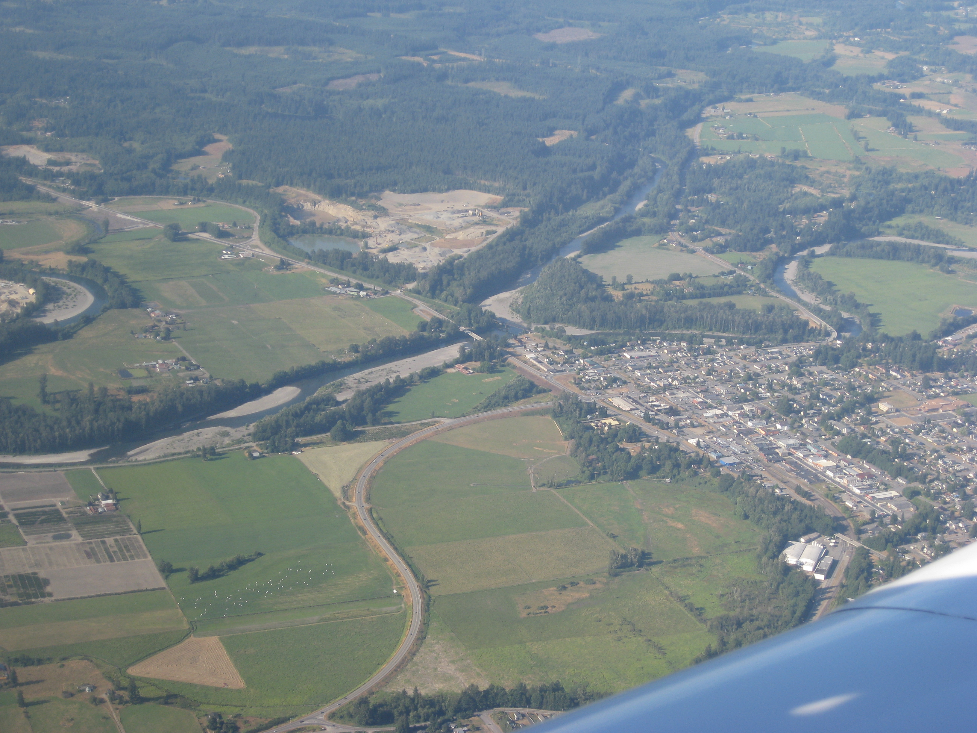 Arlington is at the intersection of the North and South Fork of the Stillaguamish i072508 111